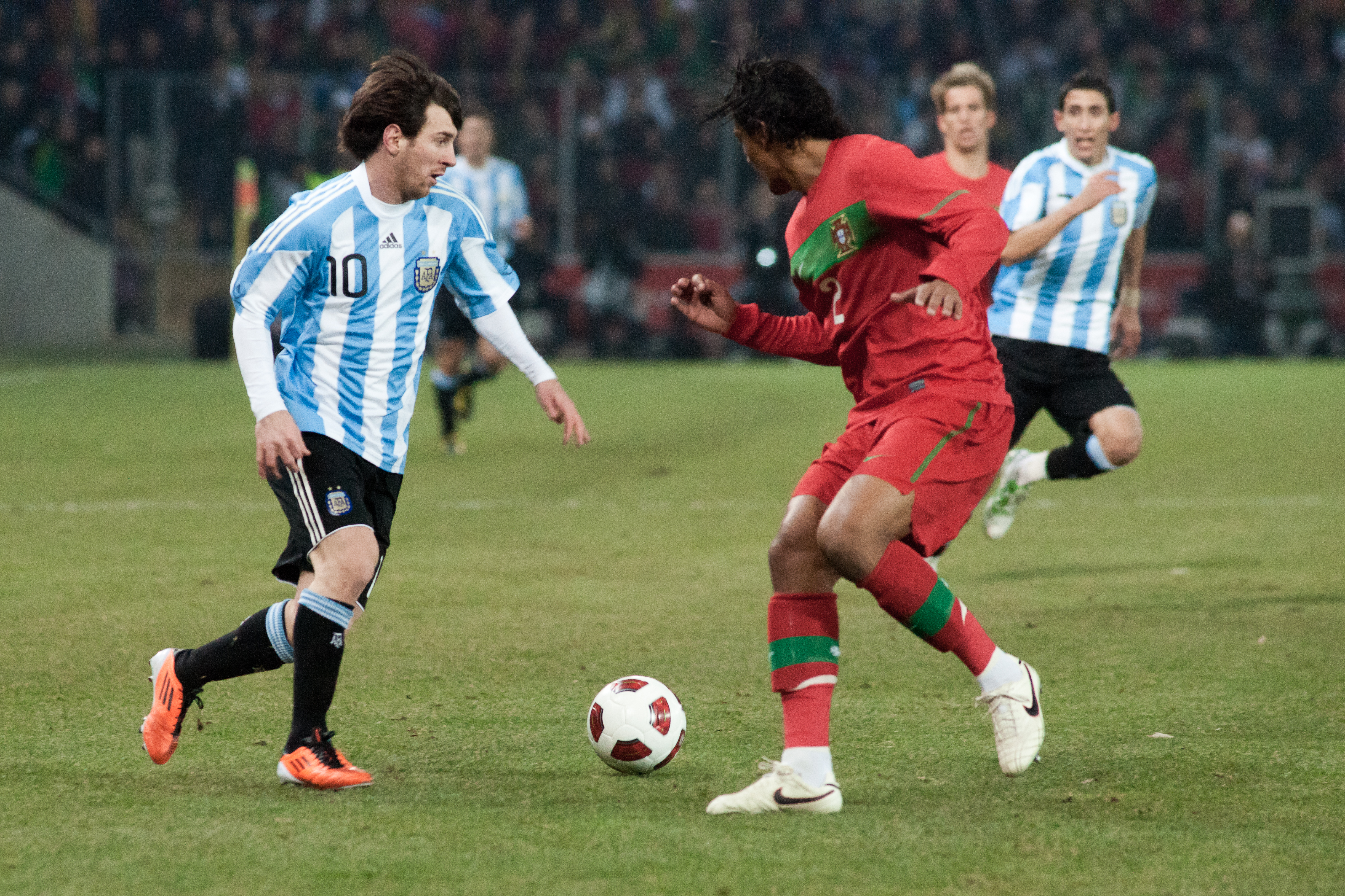 Lionel Messi (left) and Bruno Alves (right), Portugal vs. Argentina, 9th February 2011.